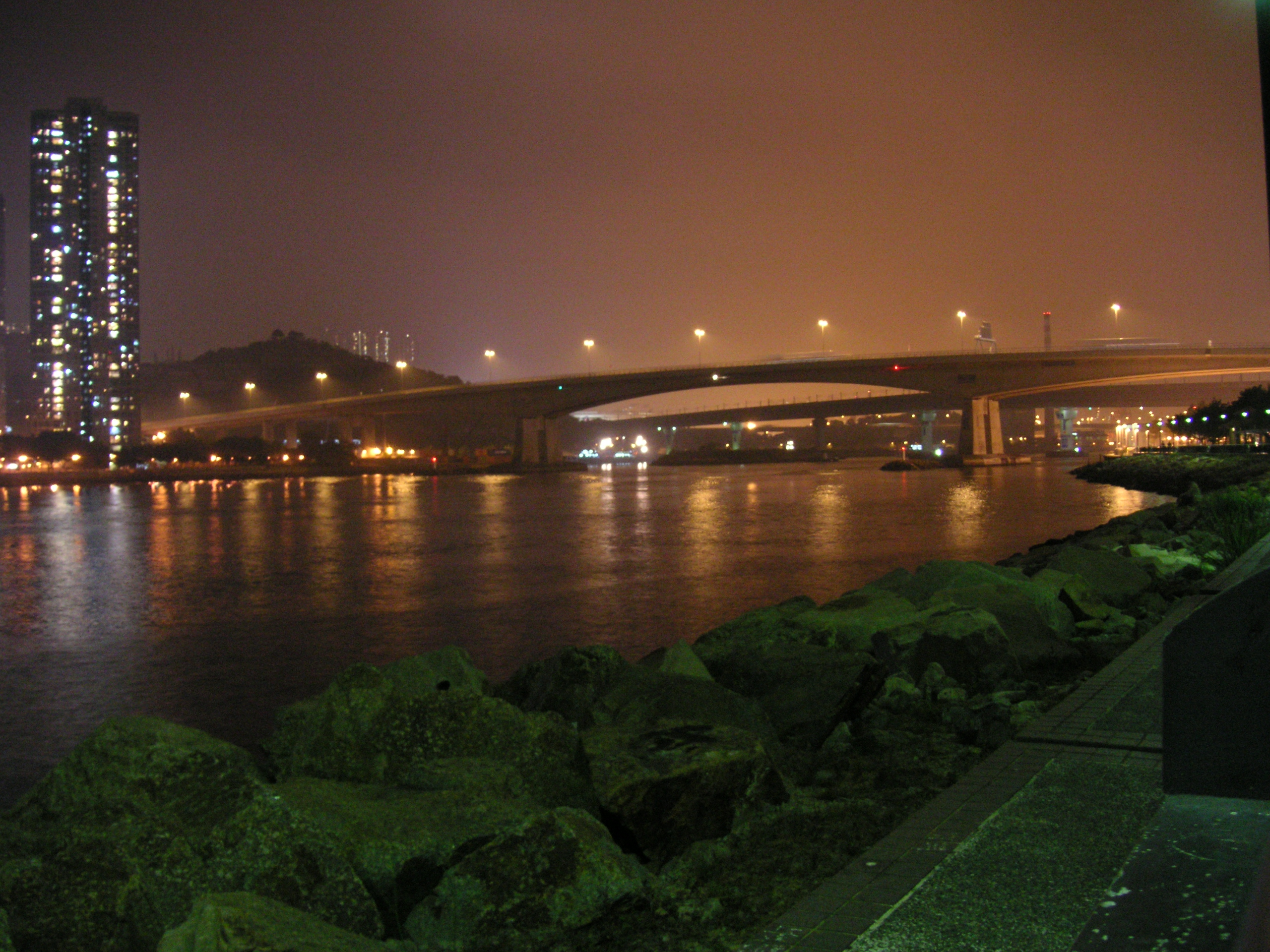 Tsing Yi North Bridge over Rambler Channel Photograph by User:HenryLi